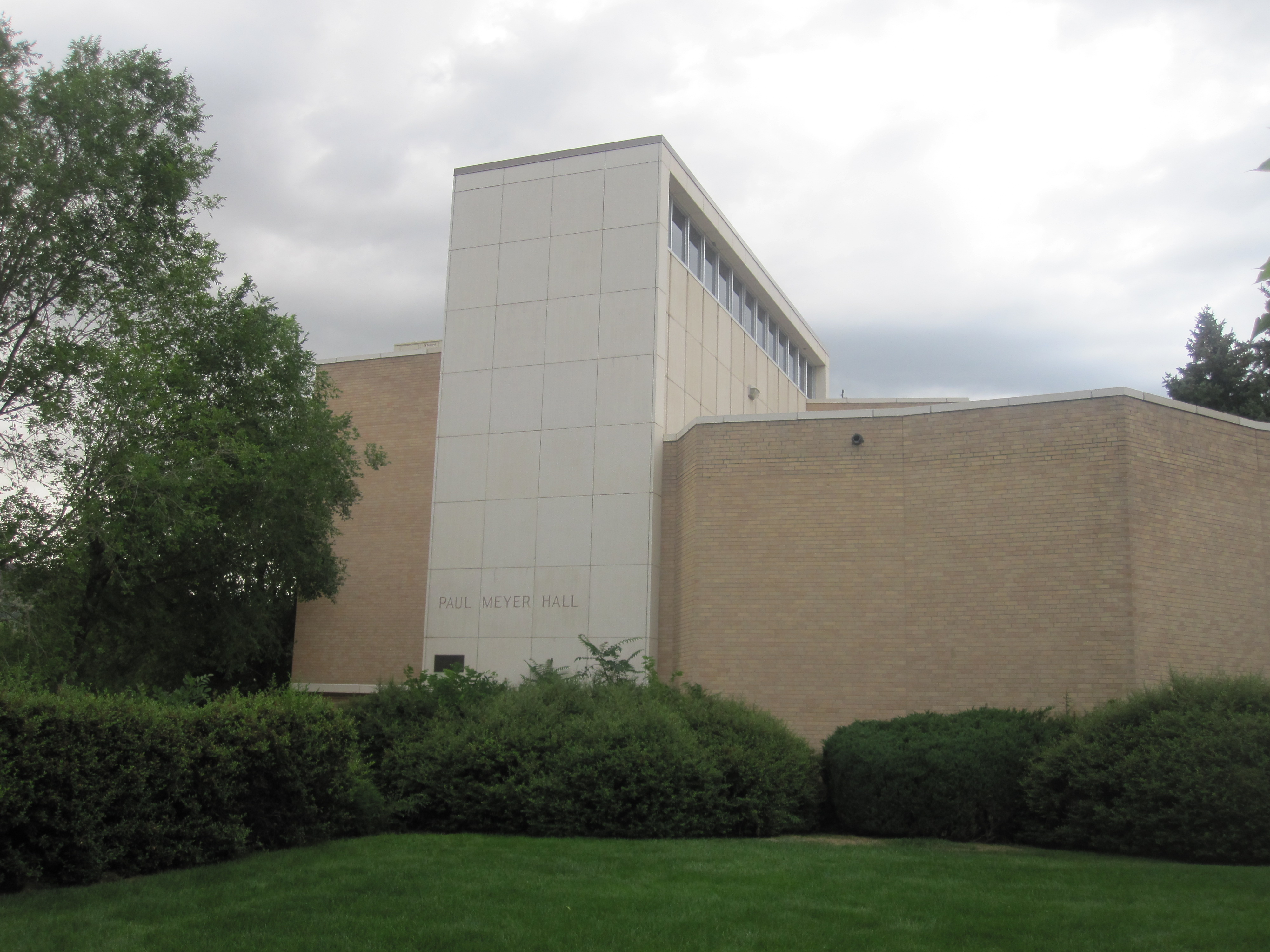 I took photo with Canon camera in Golden, CO.